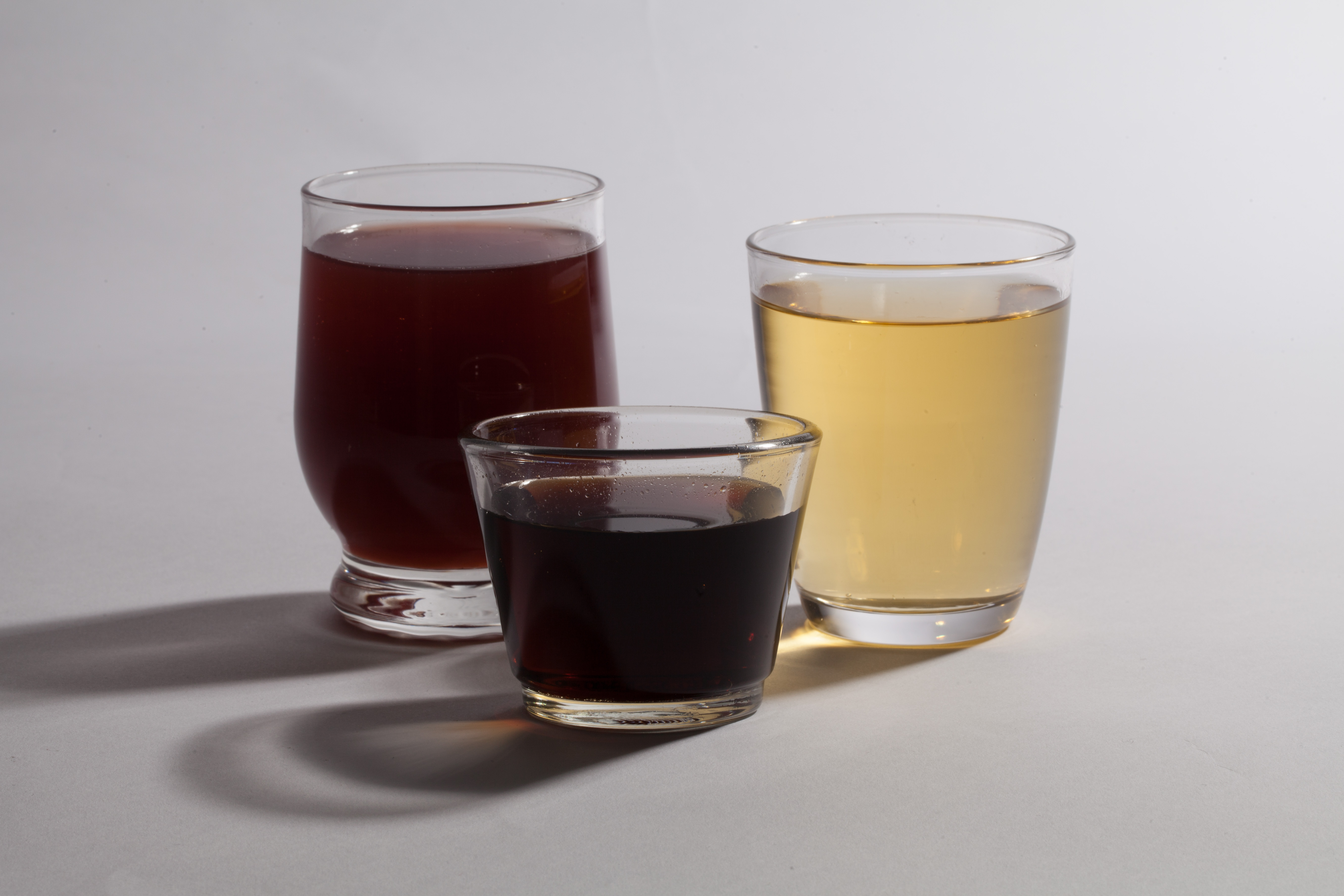 3 different beverages